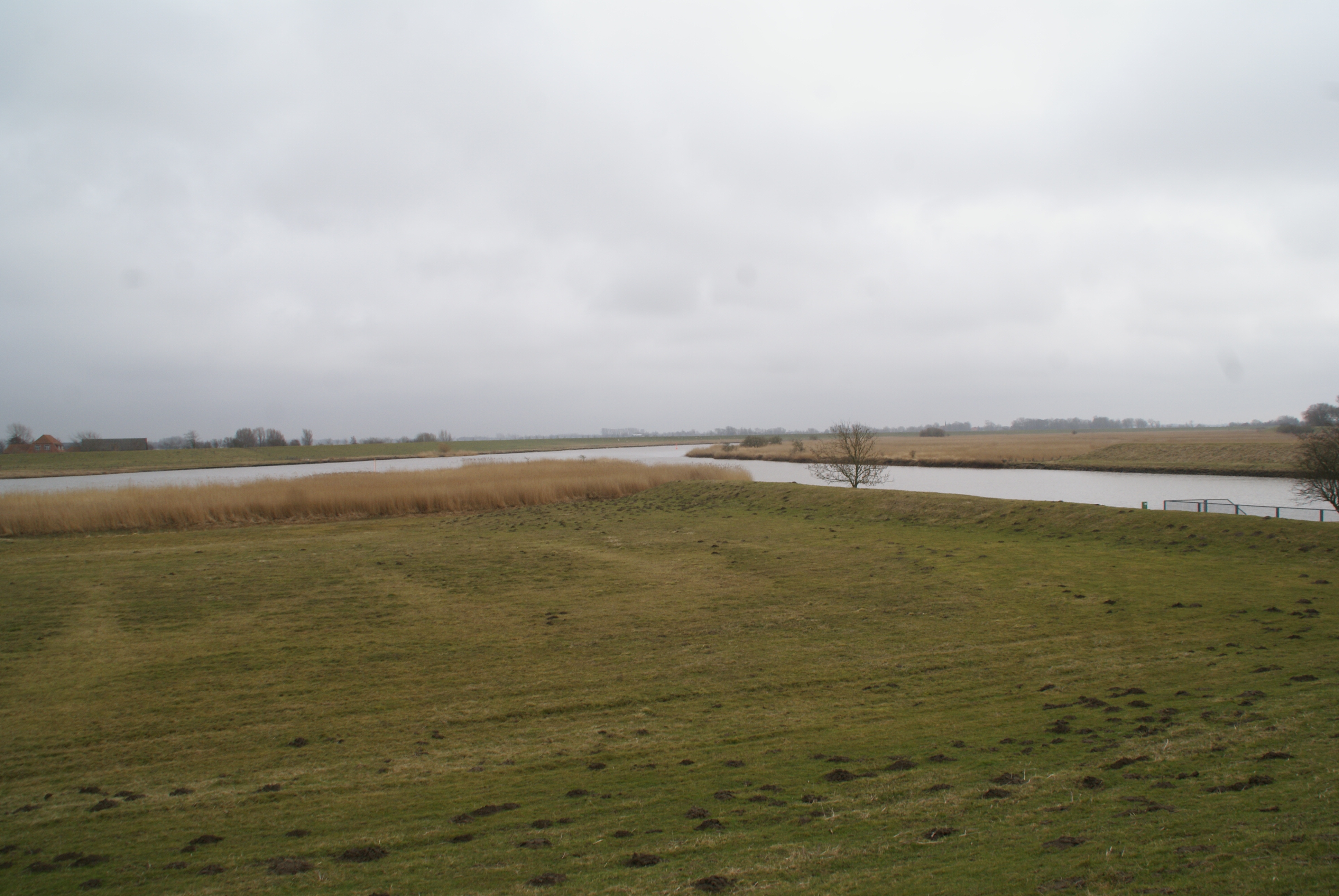 Friedrichstadt, Germany: Confluence of the river Treene and the river Eider